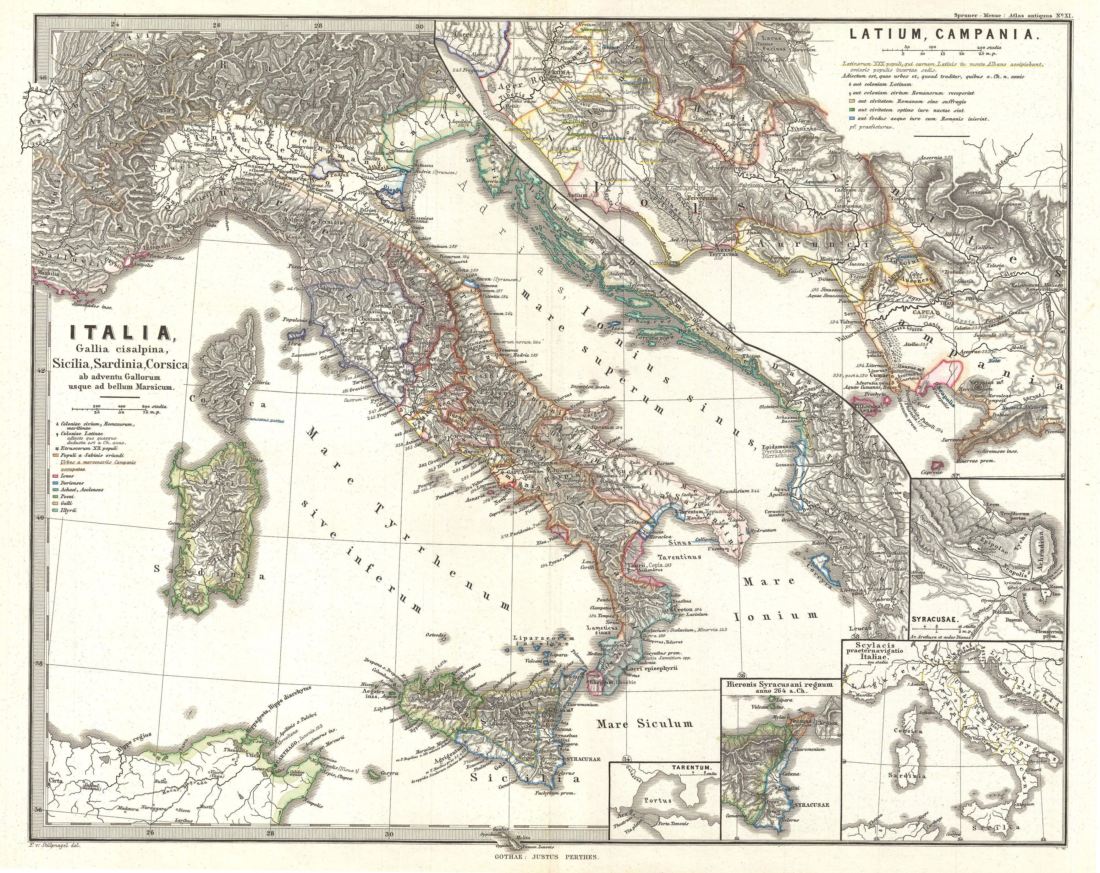 This is Karl von Spruner’s 1865 map of Italy, Cisalpine Gaul, Sicily, Sardinia, Corsica, to the arrival of the Gauls after the Marsicus War. This is essentially two larger maps in one, with four smaller insets. In the left quadrant Spruner shows the whole of Italy and Sicily, including a small map key and scale. The right quadrant depicts Latium and Campania. Latium is the region of central western Italy in which the city of Rome was founded and grew to be the capital city of the Roman Empire. This land was originally where the tribe known as the Latins resided. Campania is a region in southern Italy that, during the Roman era, was highly respected as a place of culture by the emperors, where it balanced Greco-Roman culture. The four smaller insets show Tarentum, a detailed depiction of the southern-most area of Sicily, the country of Italy as a whole, and Syracusae. Map shows important cities, rivers, mountain ranges and other minor topographical detail. Countries and territories are designated with colored borders and each map includes a key or legend. The whole is rendered in finely engraved detail exhibiting throughout the fine craftsmanship of the Perthes firm.